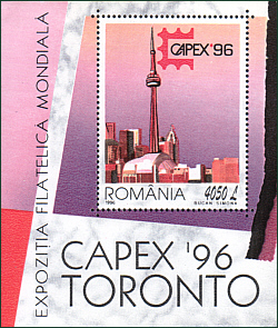 Stamp showing the CN Tower and skyline of Toronto